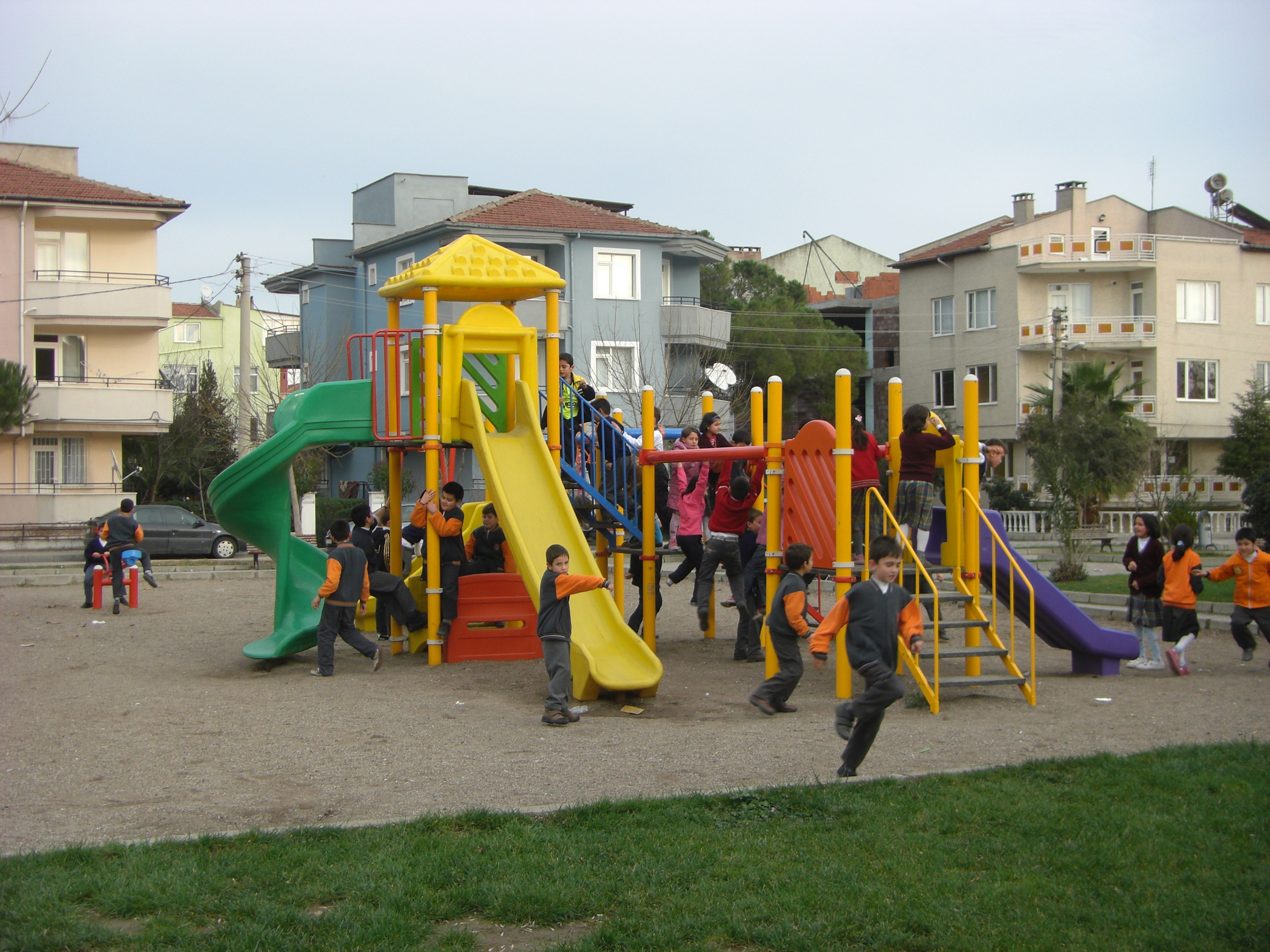 An overcrowded playground in a public garden from Balıkesir, Turkey.